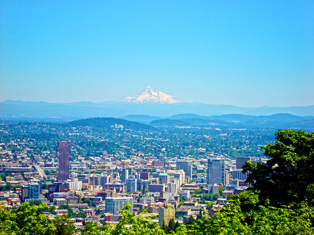 Downtown Portland with Mt. Hood in the background